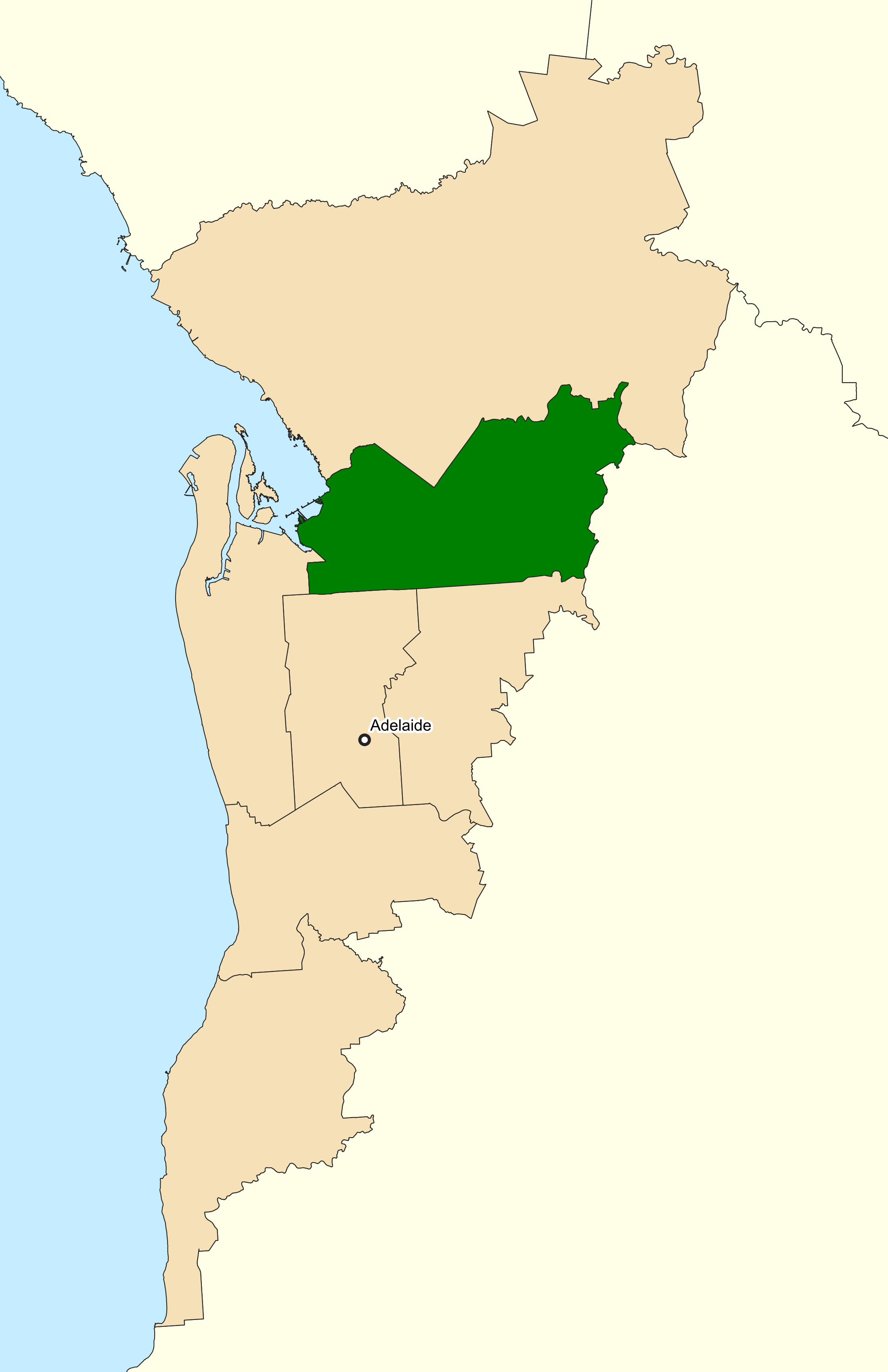 Location of the Australian federal electoral division of Makin (dark green) in Greater Adelaide, South Australia as of the 2019 Australian federal election. Incorporates or developed using Administrative Boundaries ©PSMA Australia Limited licensed by the Commonwealth of Australia under Creative Commons Attribution 4.0 International licence (CC BY 4.0).